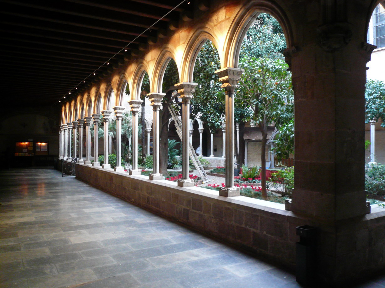 Cloister of la Concepció church (Jonqueres monastery) in Barcelona.